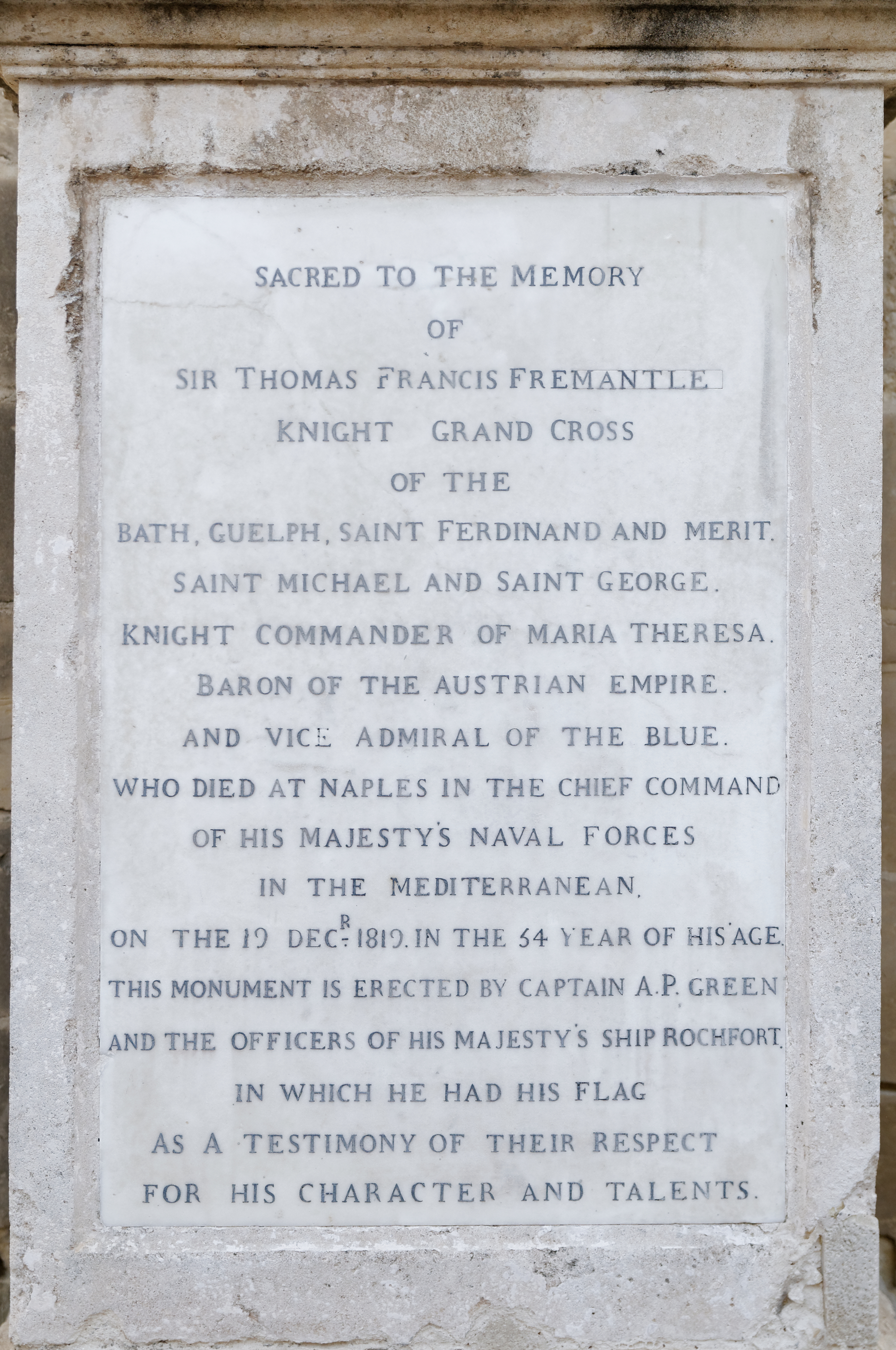 Public monument to Vice-Admiral Sir Thomas Francis Fremantle GCB GCH RN in Upper Barrakka Gardens in Valletta, Malta.